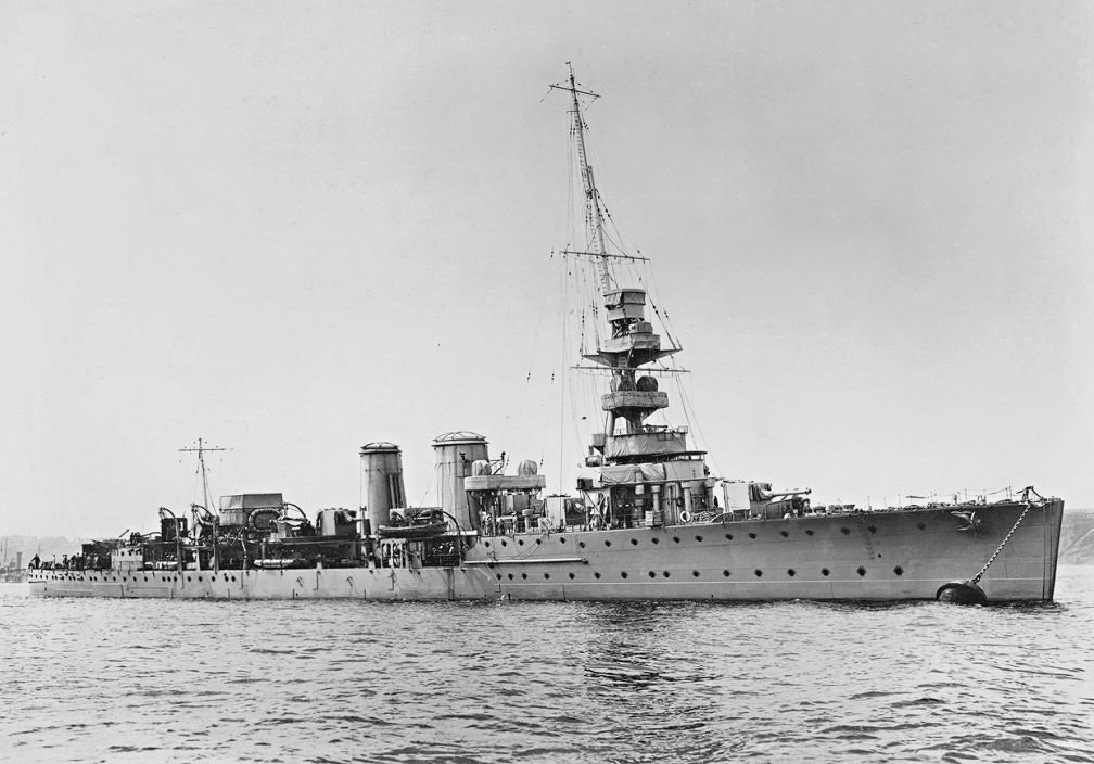 British light cruiser HMS CALYPSO.